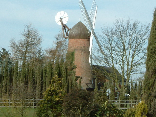 The windmill at Arnesby, Leicestershire